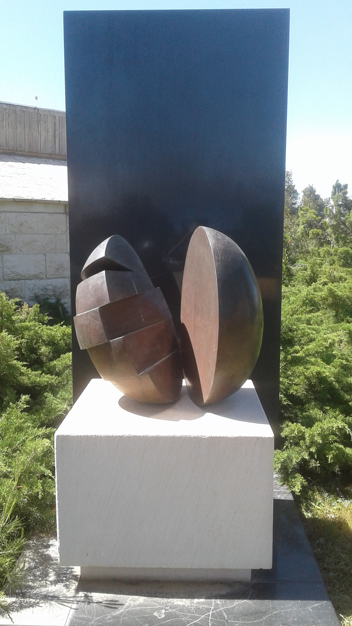 A sculpture in memory of the Mengele twins. The sculpture is in Yad Vashem, Jerusalem.